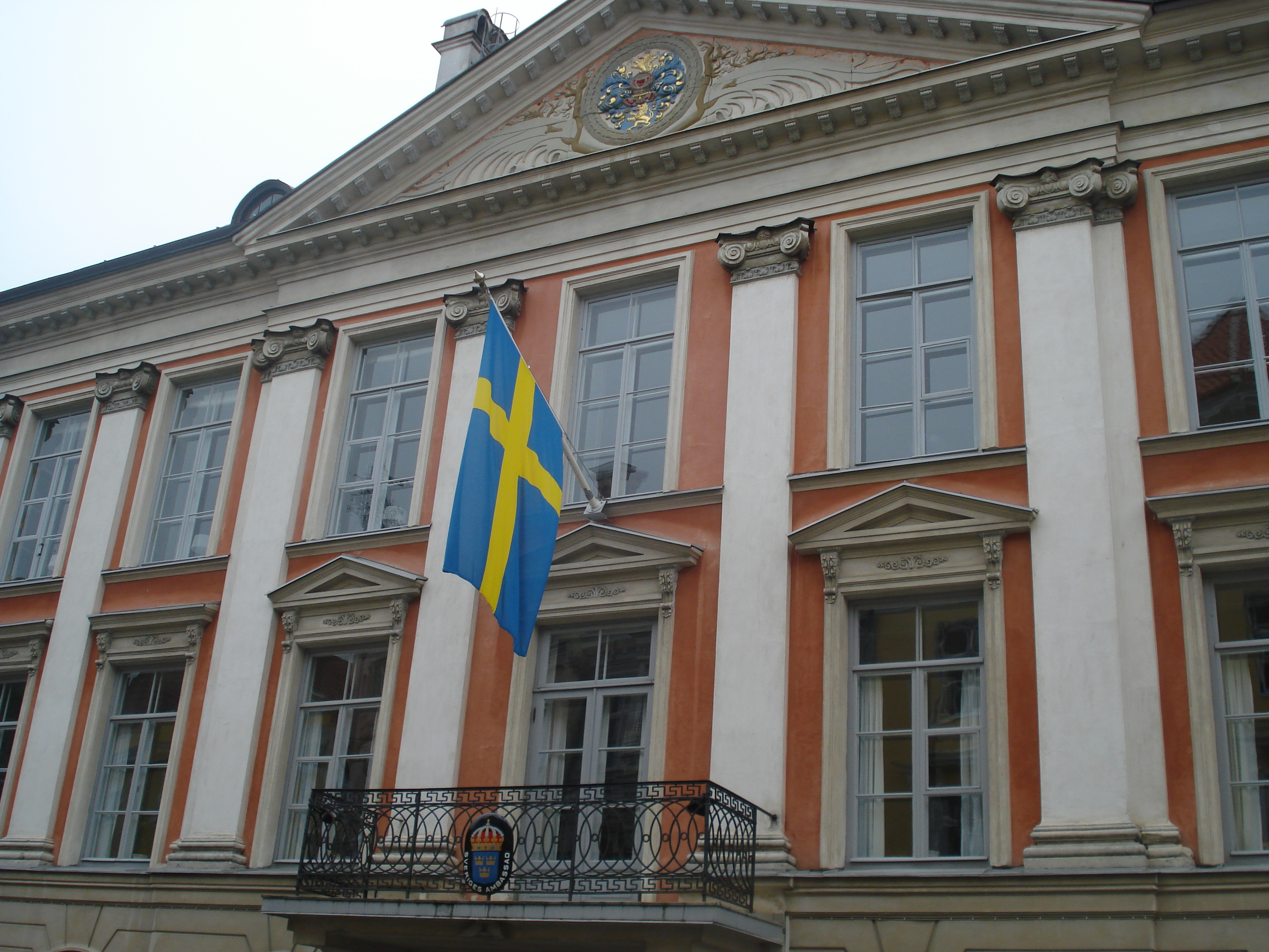 The palace of the von Rosen family. Novadays Embassy of Sweden in Tallinn. Pikk 28